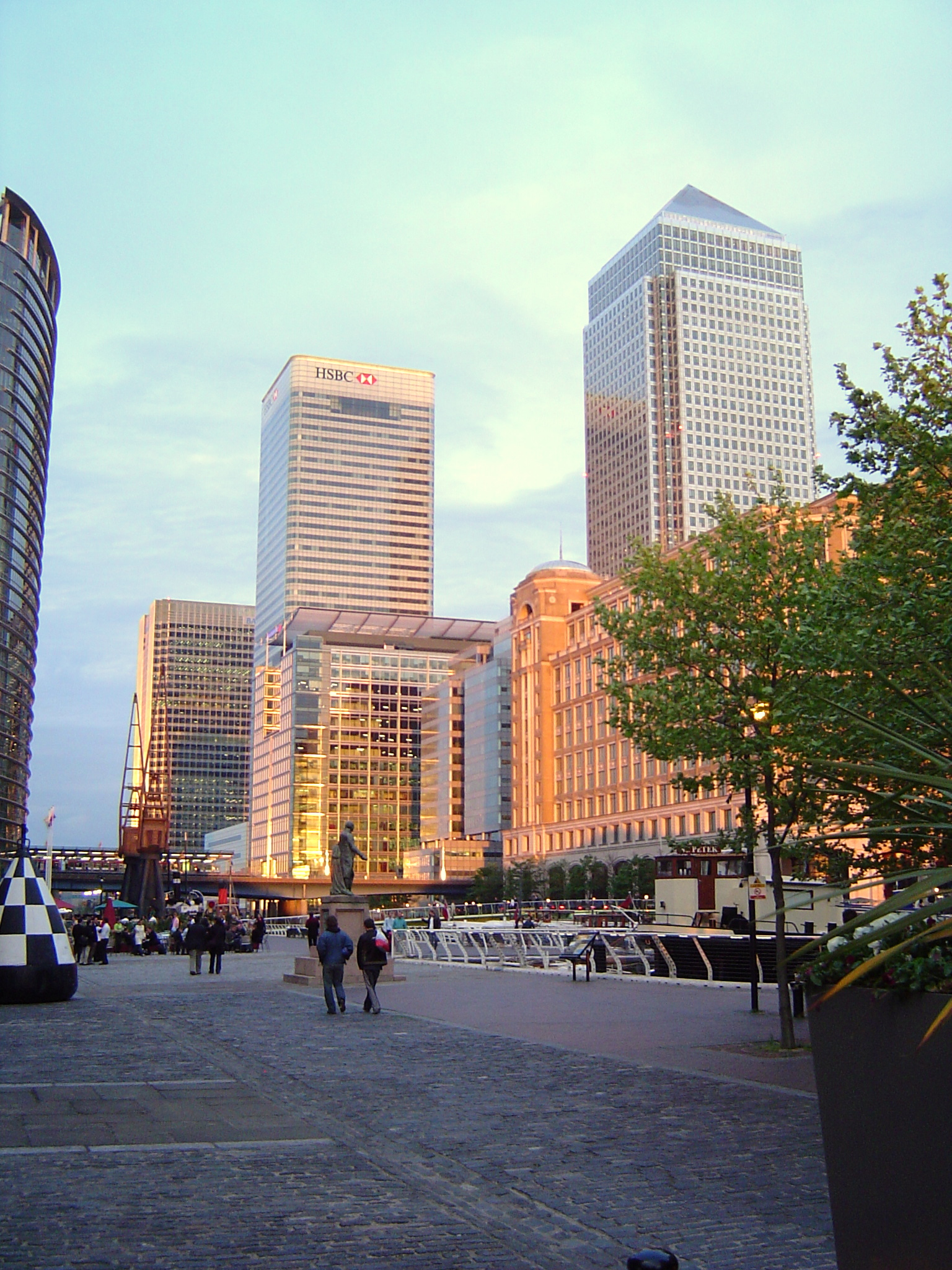 Canary Wharf Tower (1, Canada Square) and the HSBC World Headquarters, London, UK.